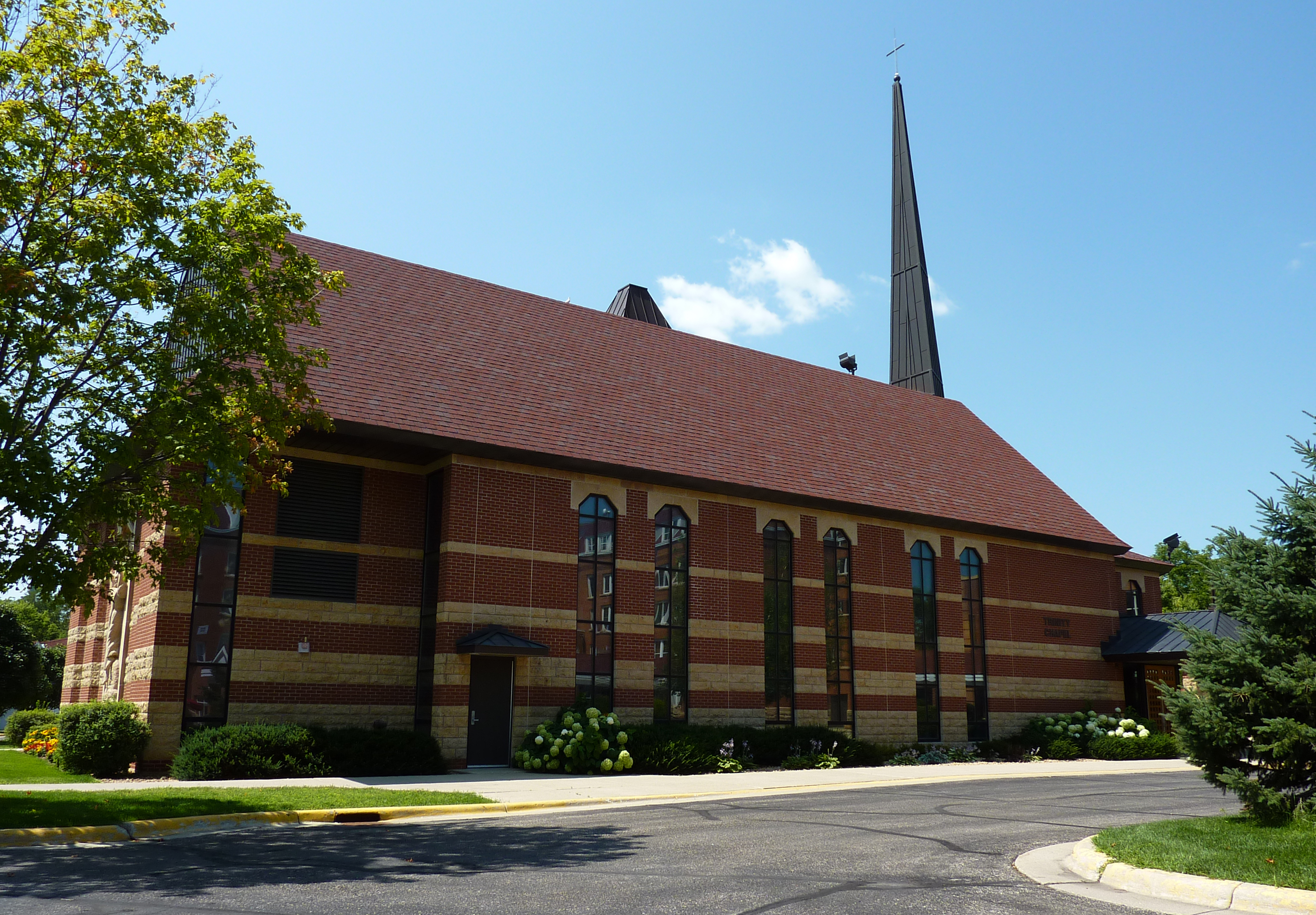 Trinity Chapel, Bethany Lutheran College, Mankato, Minnesota, USA.